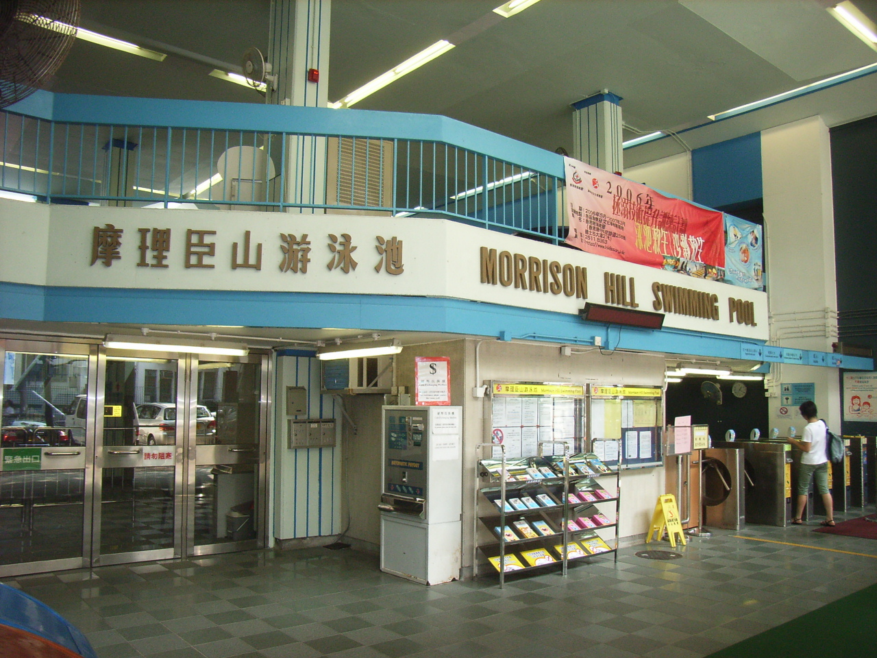 Around the Oi Kwan Road, Wan Chai, Hong Kong Author:Wenzi MHTI